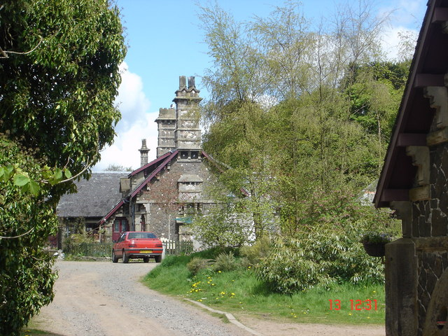 Gingerbread House Avonbridge. I kid you not this is the name advertised on the gatepost for this ornate cottage at Gowanbank just south of Avonbridge